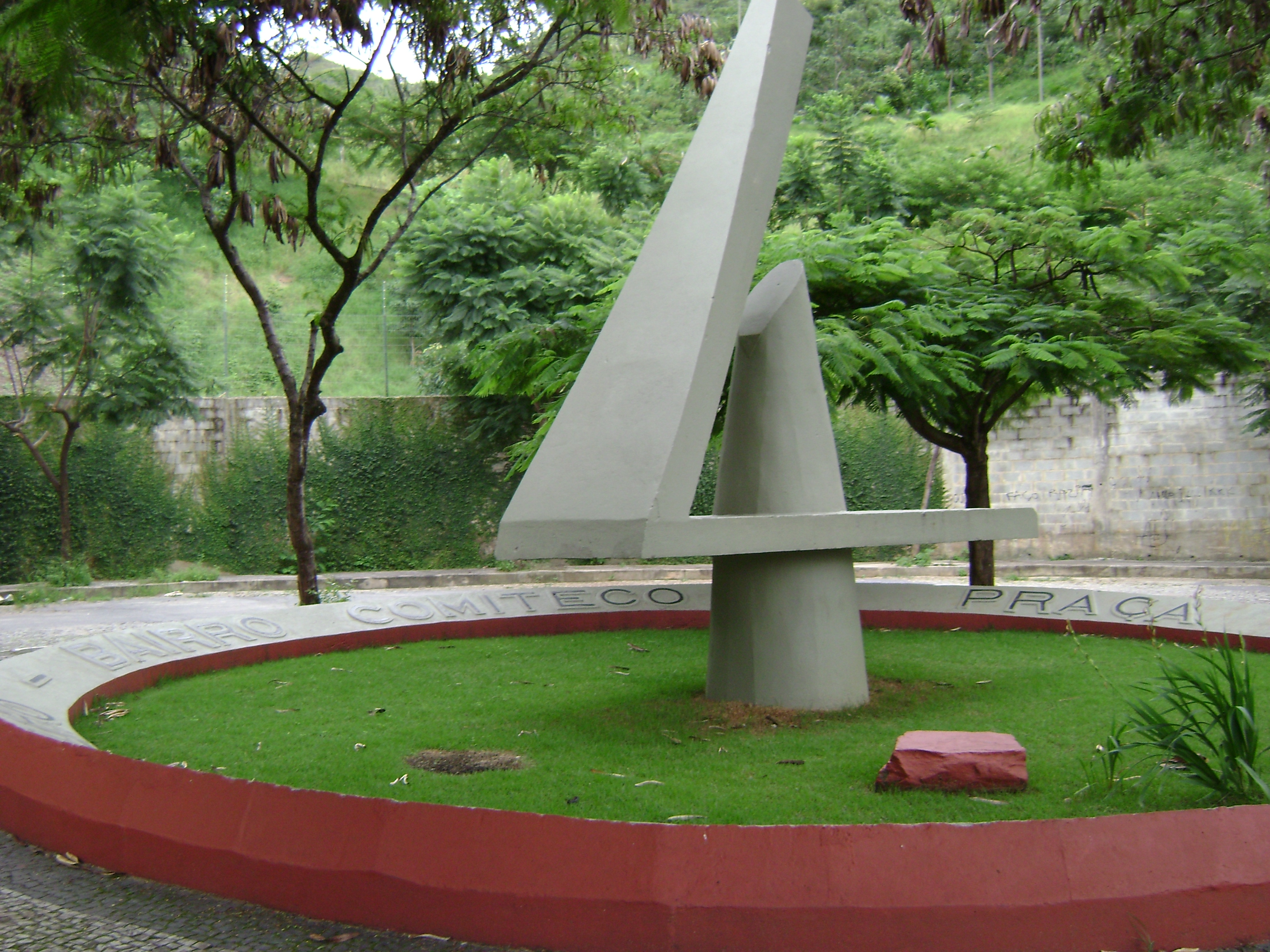 Public square in Comiteco neighborhood, in Belo Horizonte.